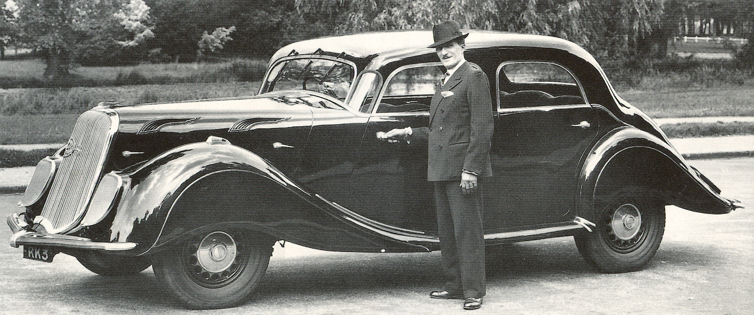 Panhard & Levassor Dynamic Sedan (1937), with Victor Boucher Country of origin: France